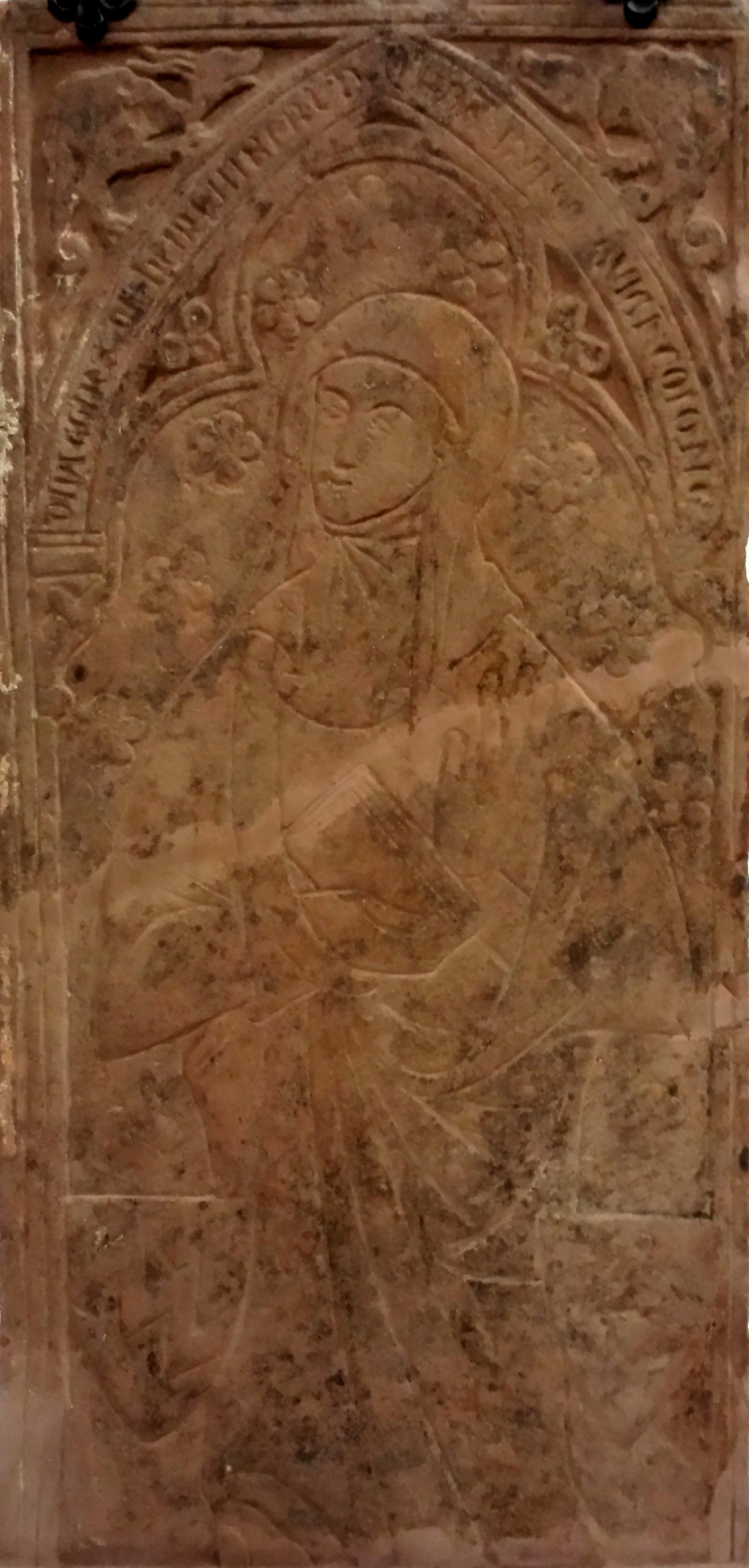 Gravestone of the Agnes von Heinzenberg in the monastery church of Himmerod